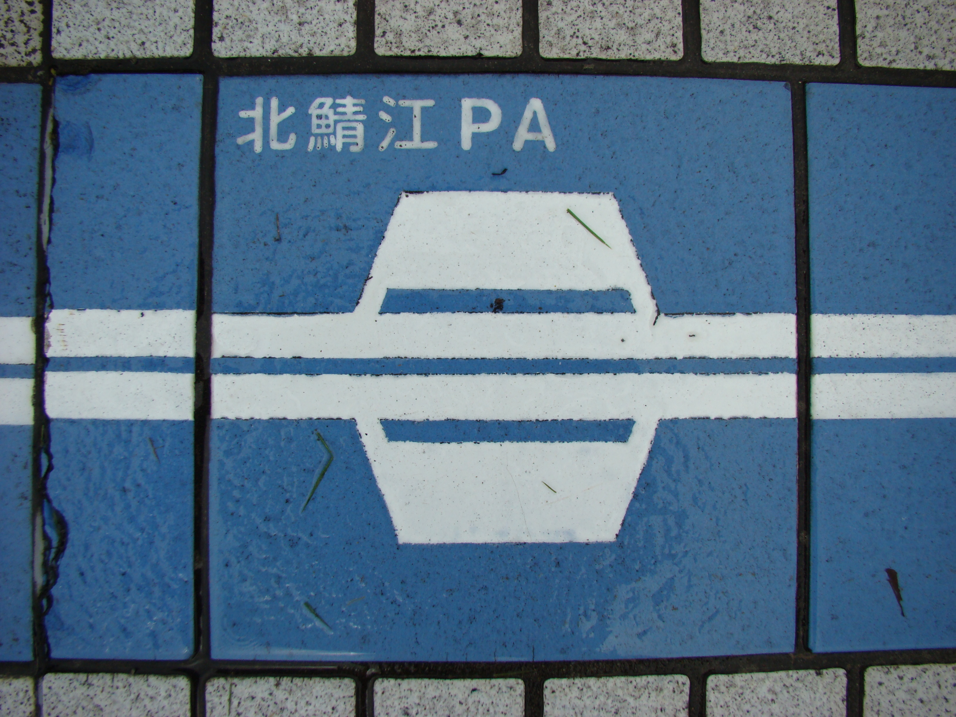 The tile which designed a shape of the Kita-Sabae Parking Area（Hokuriku Expressway）（There is this tile in Hokuriku Expressway Nadachi-Tanihama Service Area.）. Place - Chayagahara,Joetsu City,Niigata Prefecture,Japan Date - August 9, 2009 Format - JPEG, 3264x2448pixel, 24bit colors. Photographer - NALA Wiki (talk)